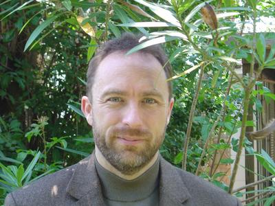 picture of Jimmy